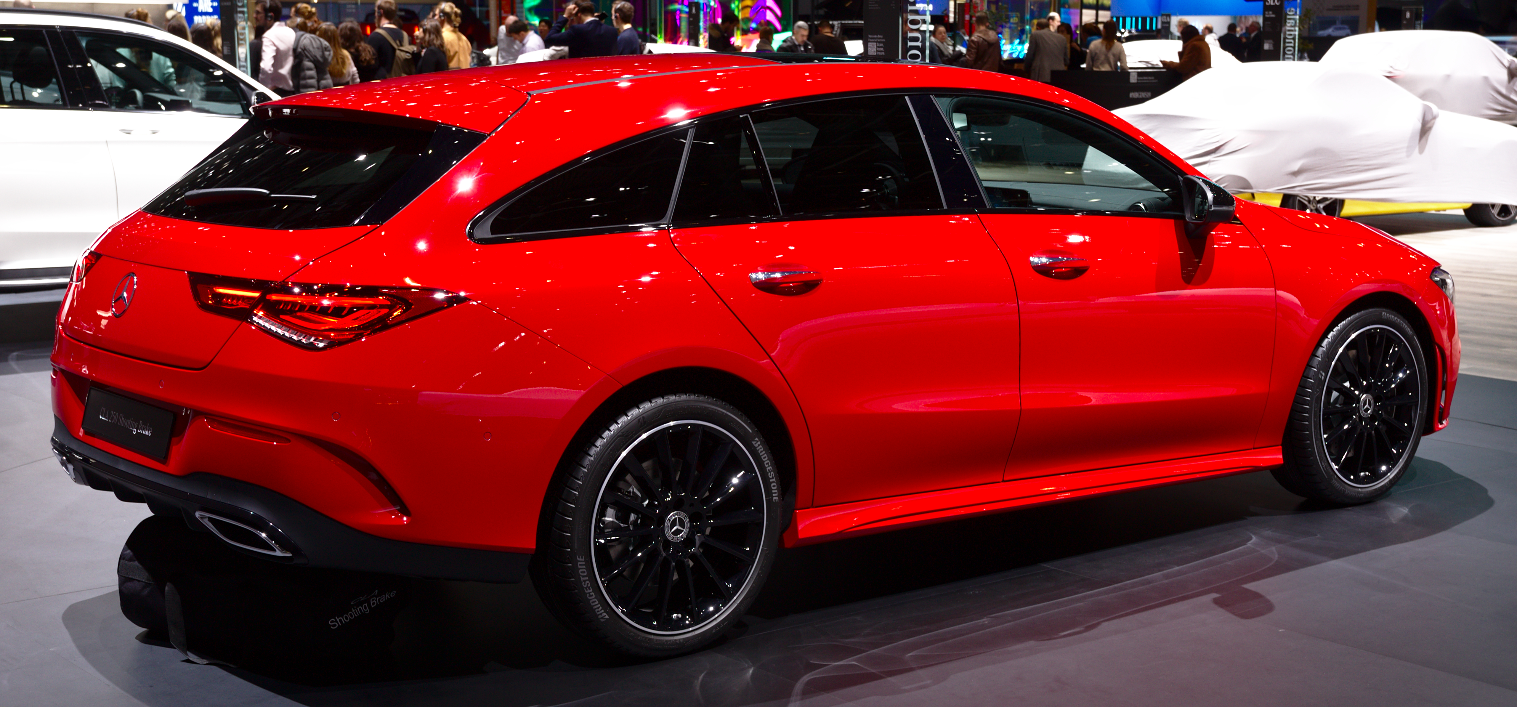 Mercedes-Benz CLA 250 Shooting Brake at Geneva Motor Show 2019